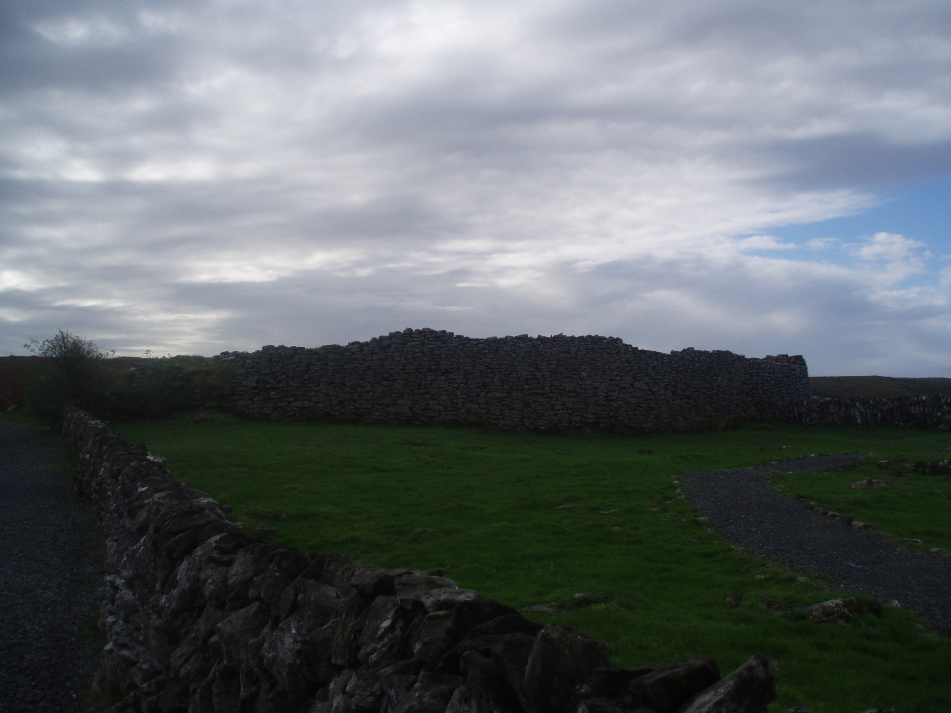 Caherconnell stone fort, in the Burren, Ireland